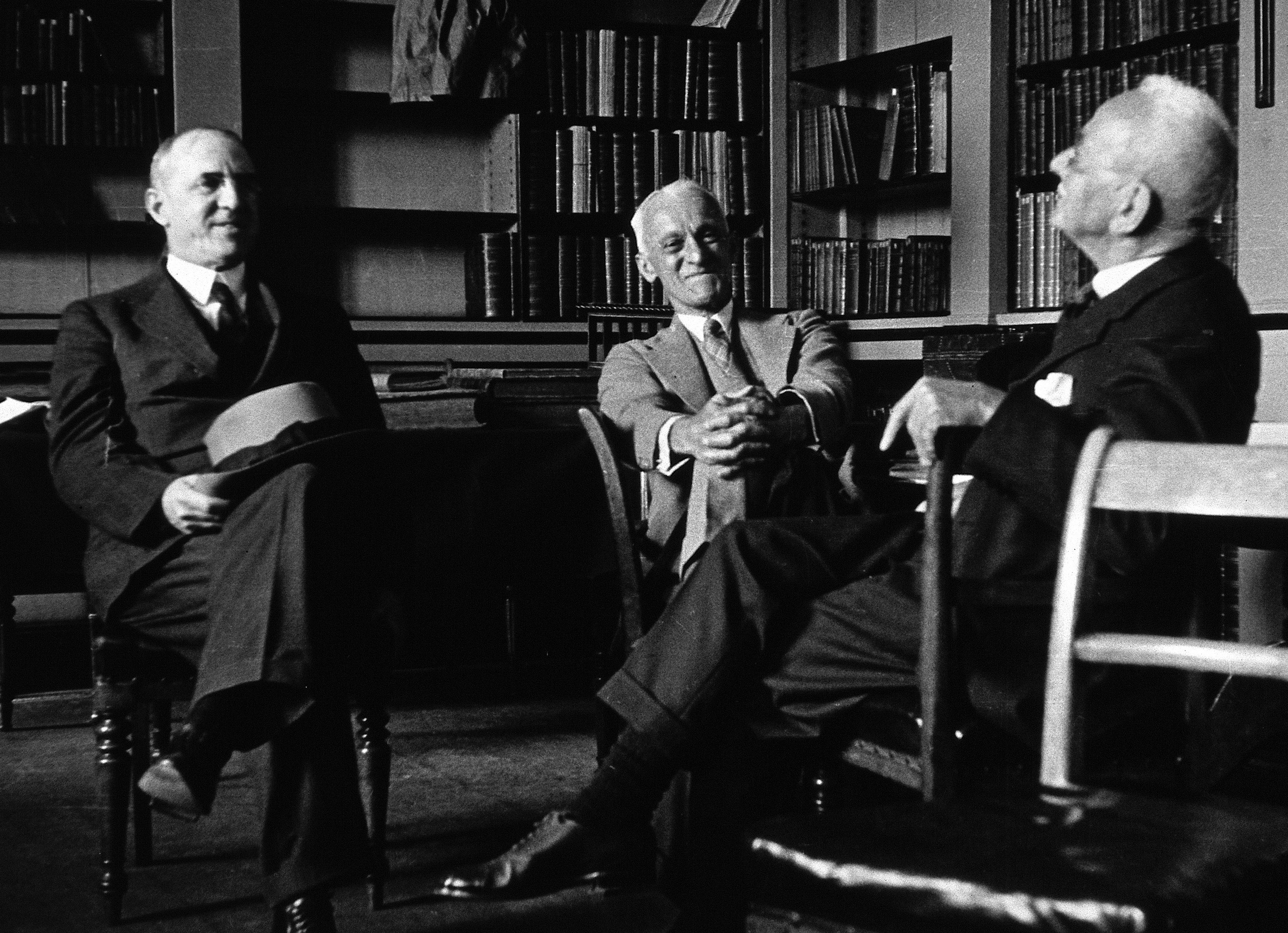 Lynn Thorndike, Harvey Williams Cushing and Charles Scott Sherrington